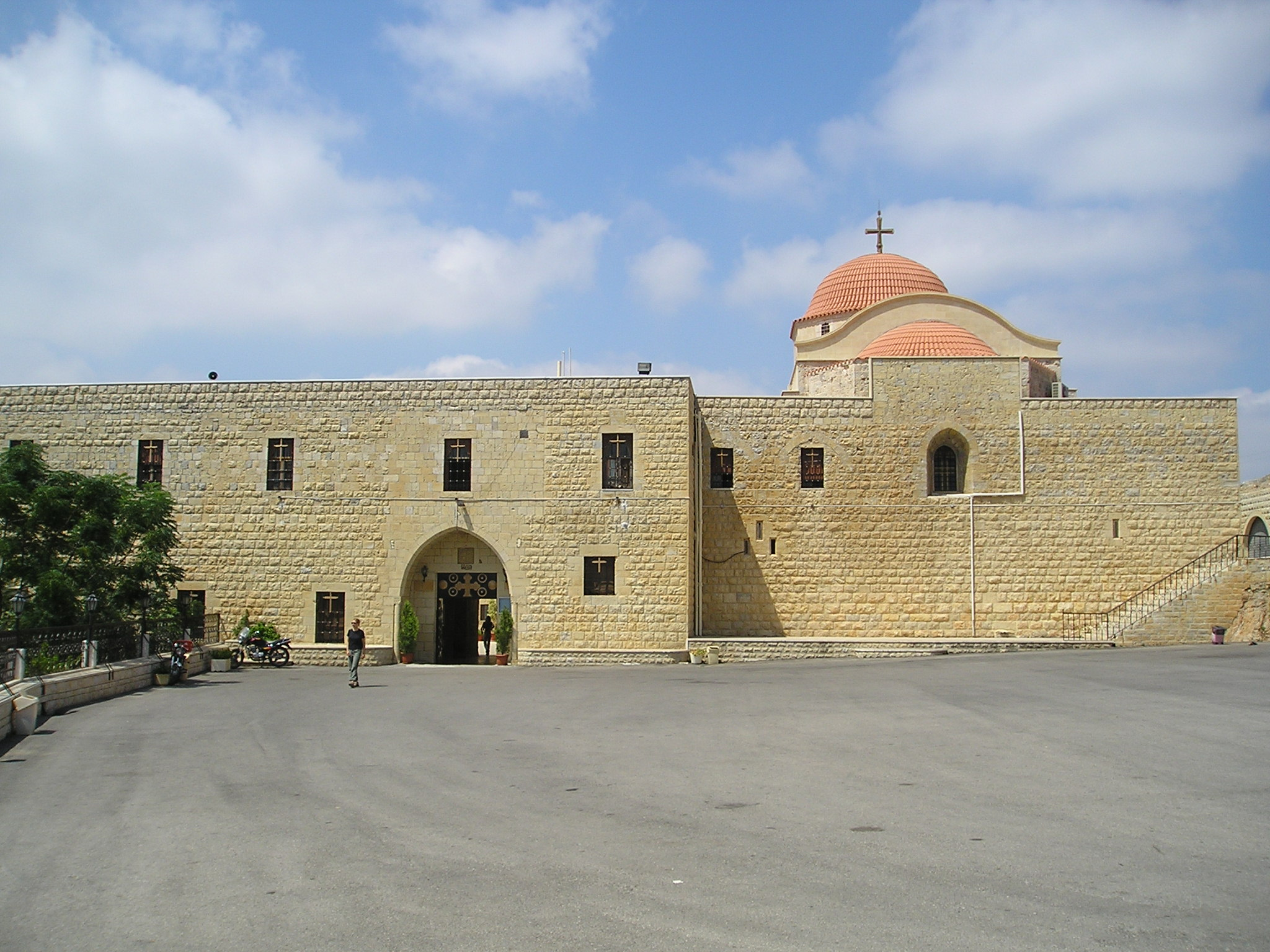 Wadi Nasara (Valley of the Christians) in NW Syria (near Krak des Chevaliers): St. George's Monastery (Deir Mar Jirjis)